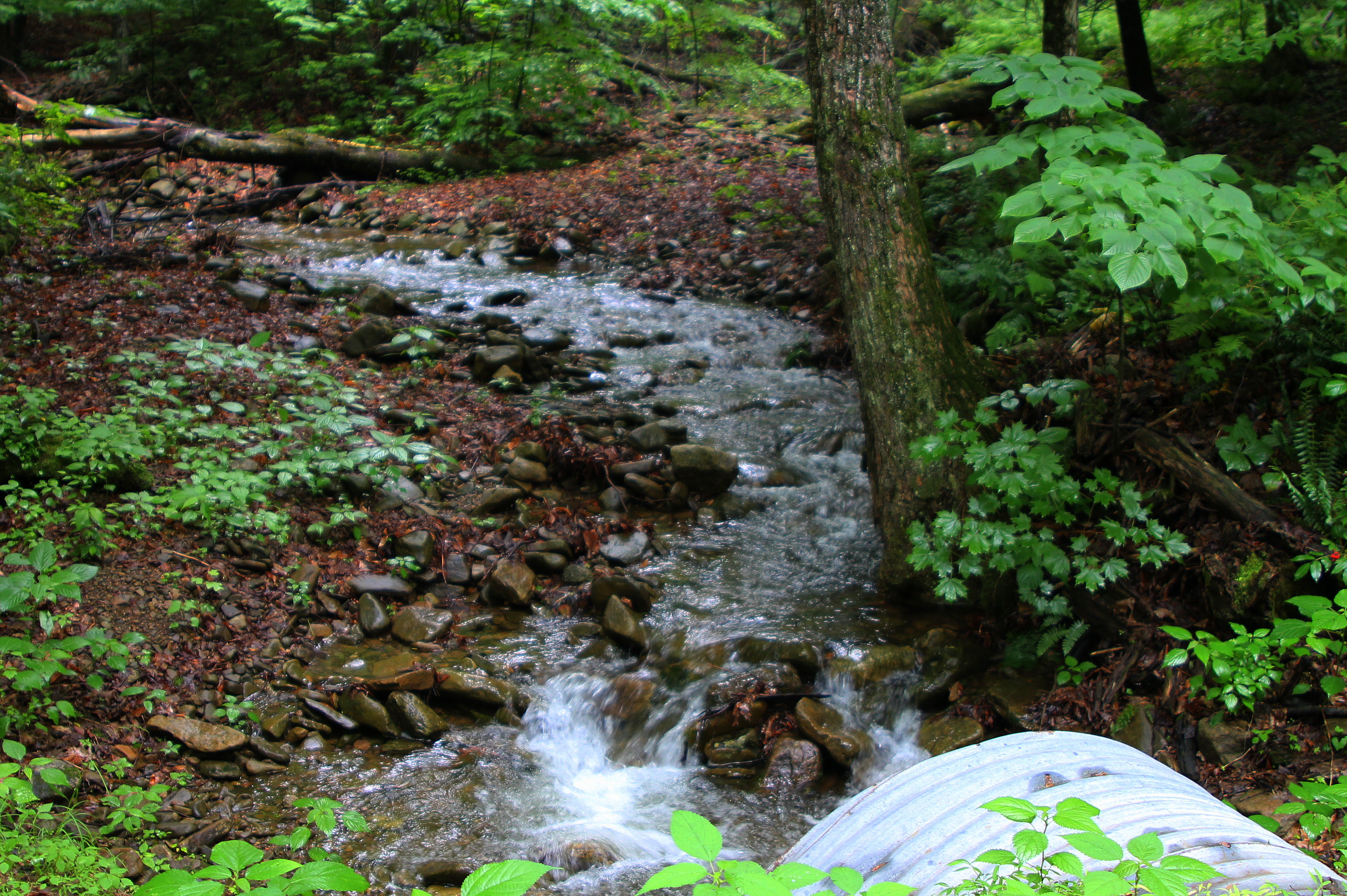 Lead Run looking upstream